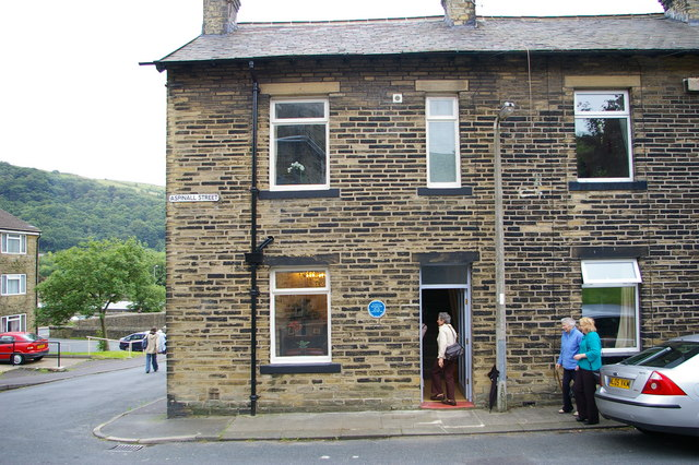 Birthplace of Ted Hughes. Former poet laureate Ted Hughes was born at 1 Aspinall Street, Mytholmroyd on 17 August 1930. Ted lived in the house until he was eight. At least eight of his poems make reference to the house. The property was purchased by the Elmet Trust in 2005 and has been renovated and decorated in a 1930s style. The house is to become a holiday-let but will also be open to the public on certain days in the year. This photo was taken following the official opening by the Lord Mayor of Calderdale and the unveiling of the Blue plaque by poet Simon Armitage. Compare with 46720 taken a few years earlier.